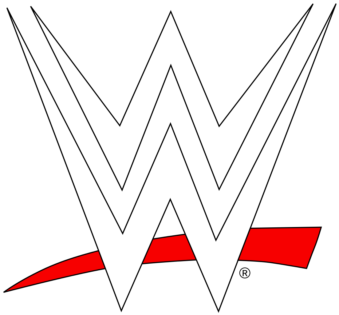 The new wwe logo